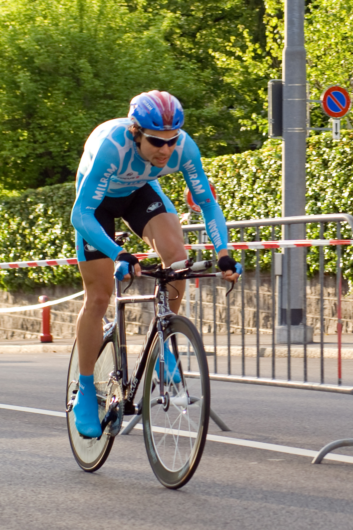 Marcus Fothen, Tour de Romandie 2009